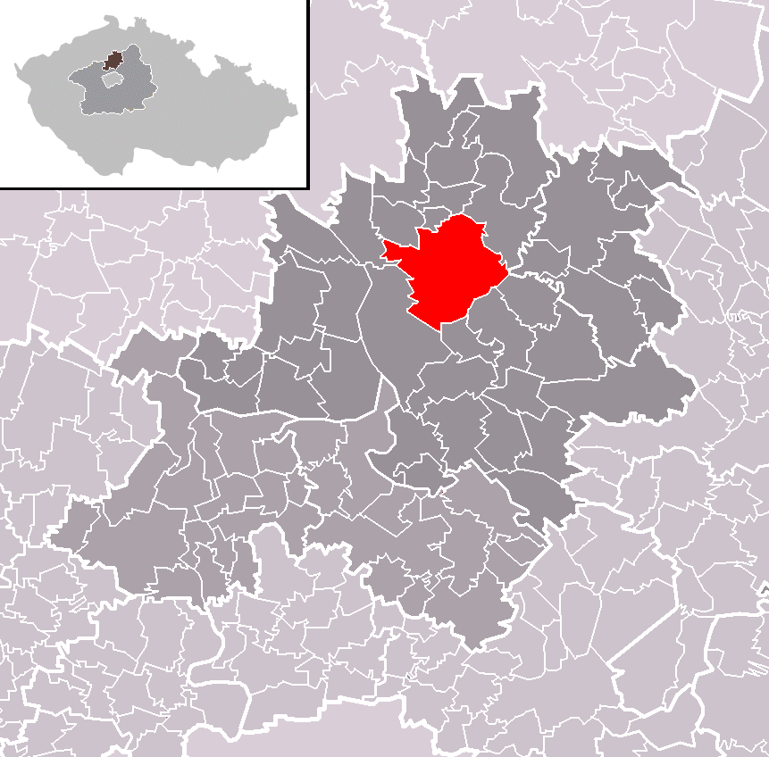 Location of Vysoká municipality within Mělník District and administrative area of Mělník as a Municipality with Extended Competence.